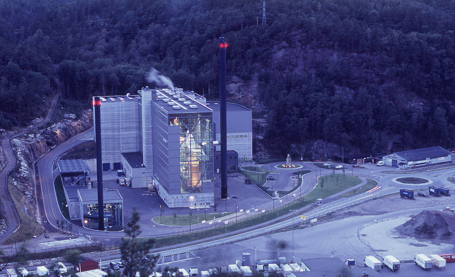 The Returkraft CHP plant in Kristiansand, Norway